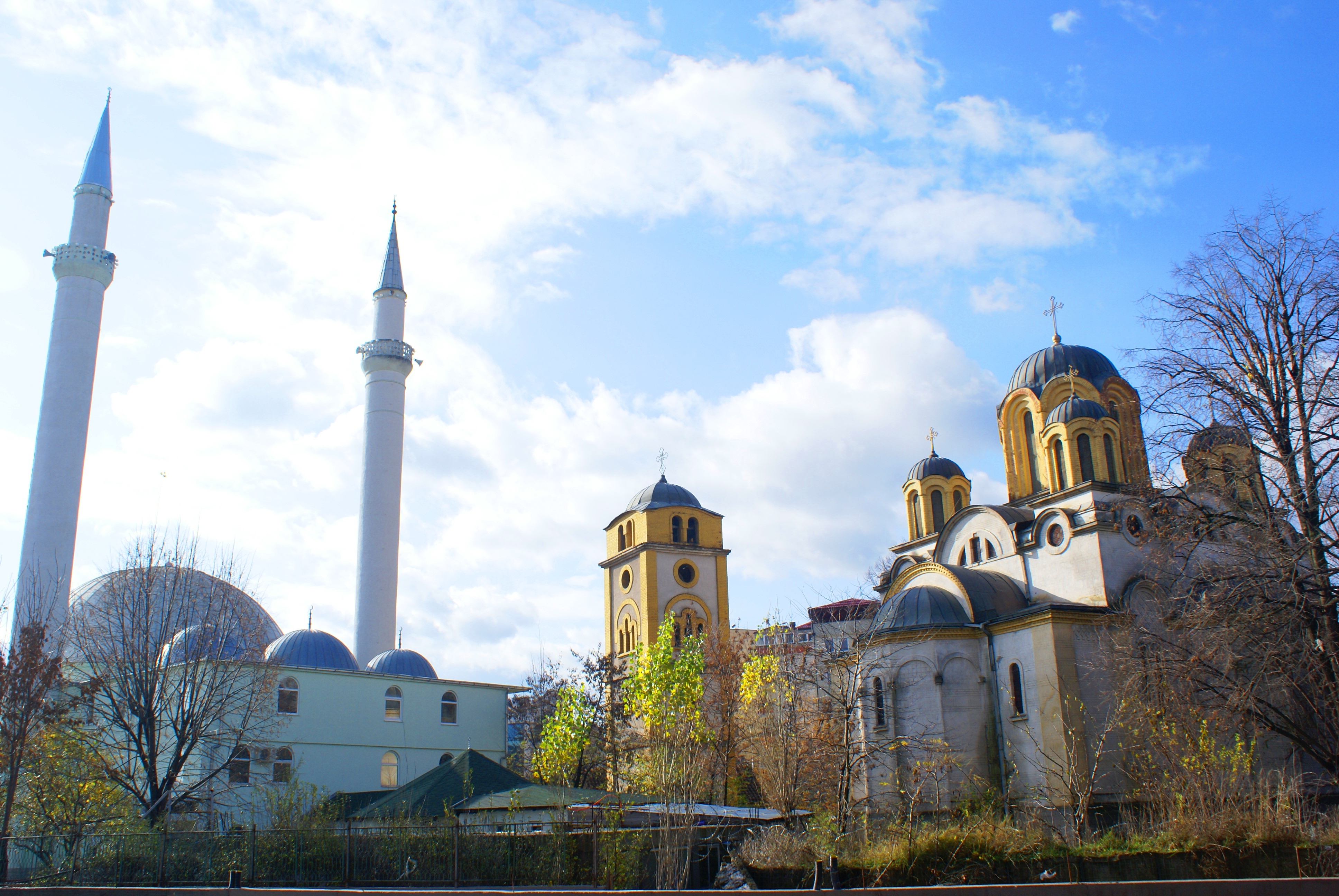 Church and Mosque in the same garden.